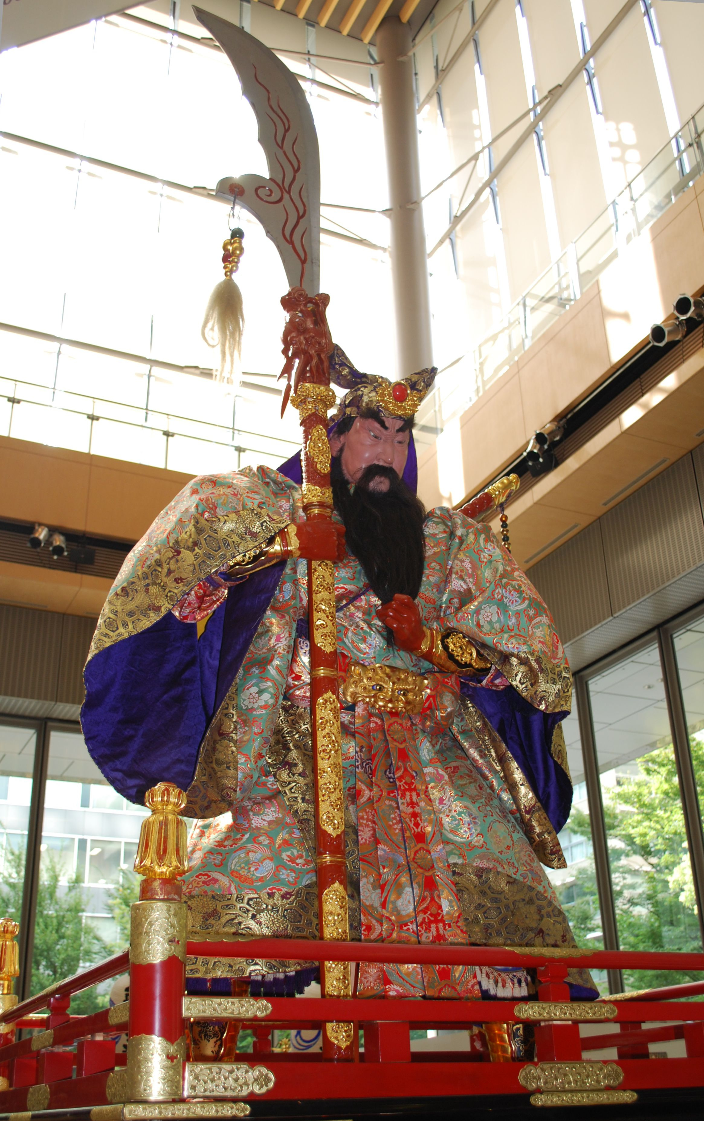 A doll of a festival of Tochigi,Yorozucyo-2cyome,kan-u-uncyo,tochigi-city,japan